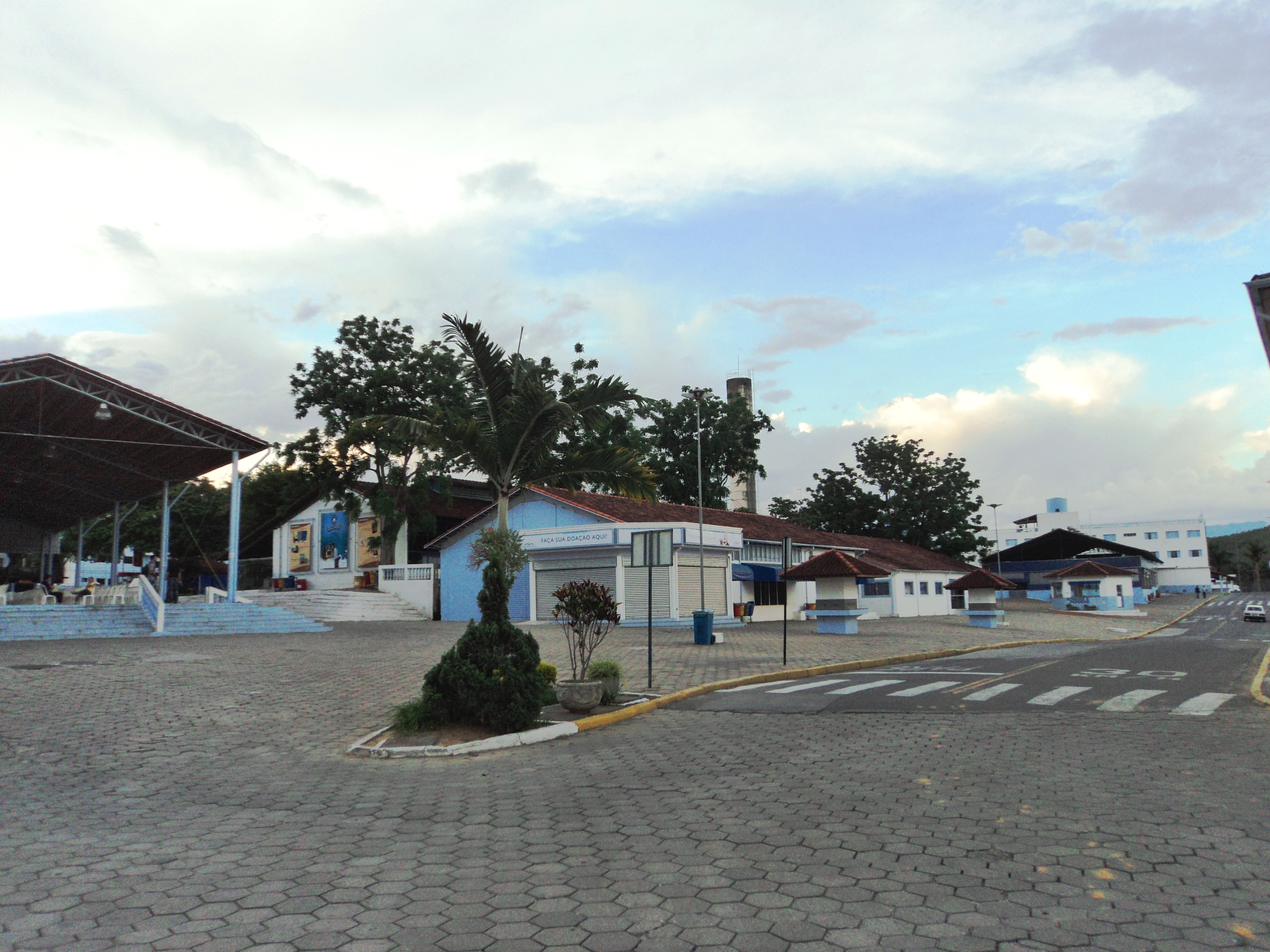 View of the Canção Nova, in Cachoeira Paulista, São Paulo, Brazil.